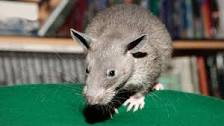 Front view of flores giant rat